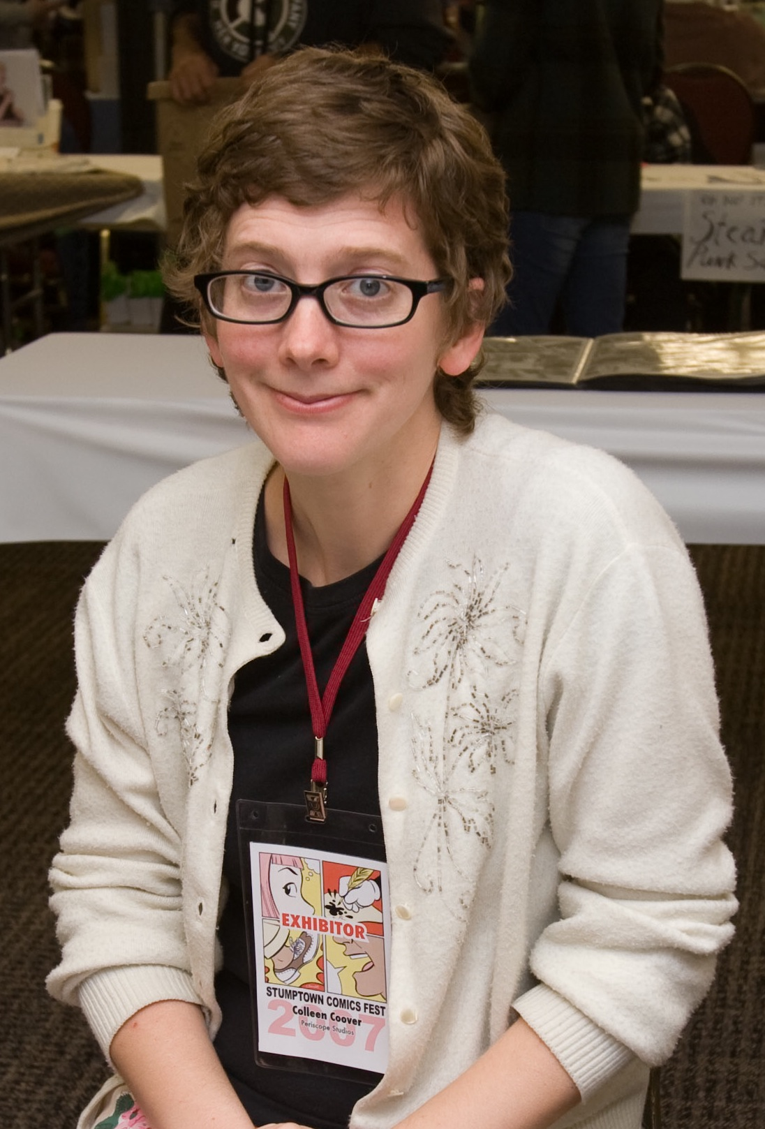 Comics creator Colleen Coover at Stumptown Comics Festival 2007.